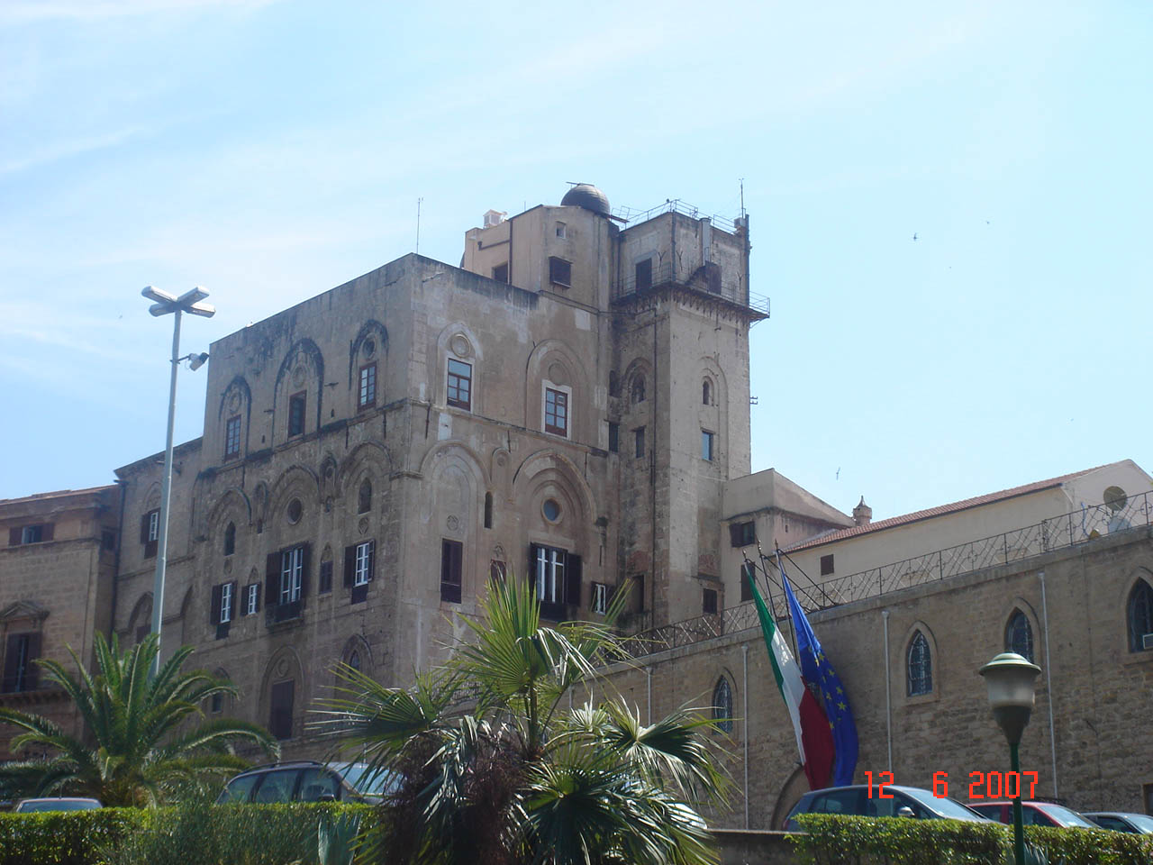 Torre Pisana, palazzo dei Normanni (Palermo)